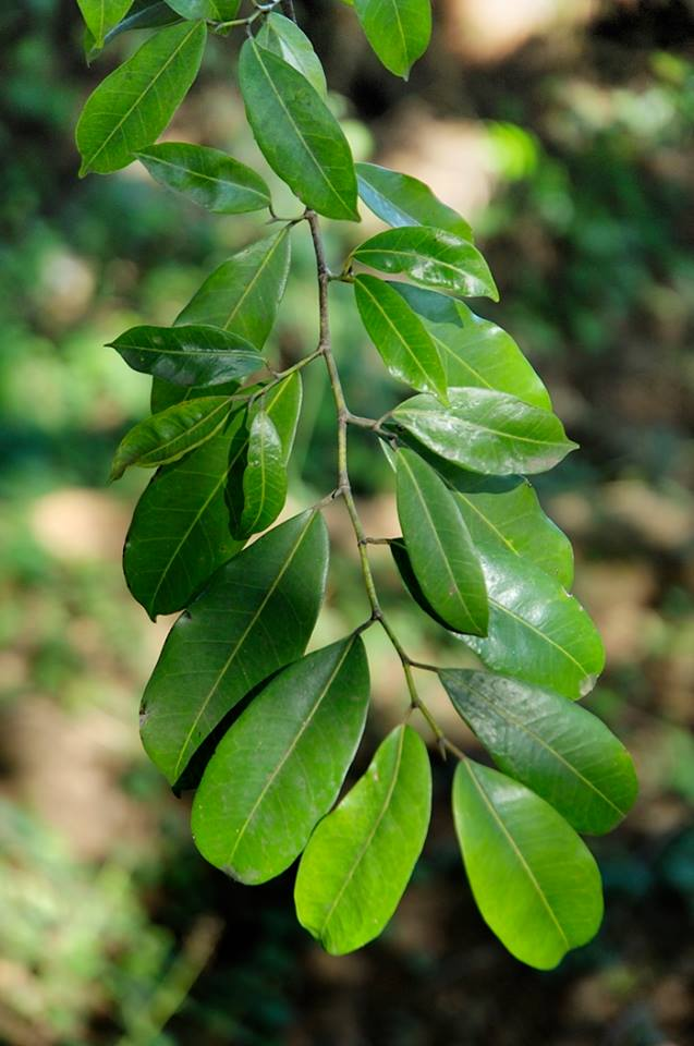 Trilepisium madagascariense DC. - leaves from Vendaland tree, South Africa